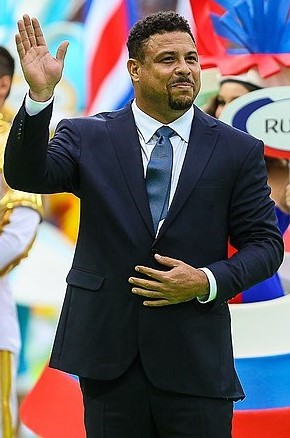 Ronaldo